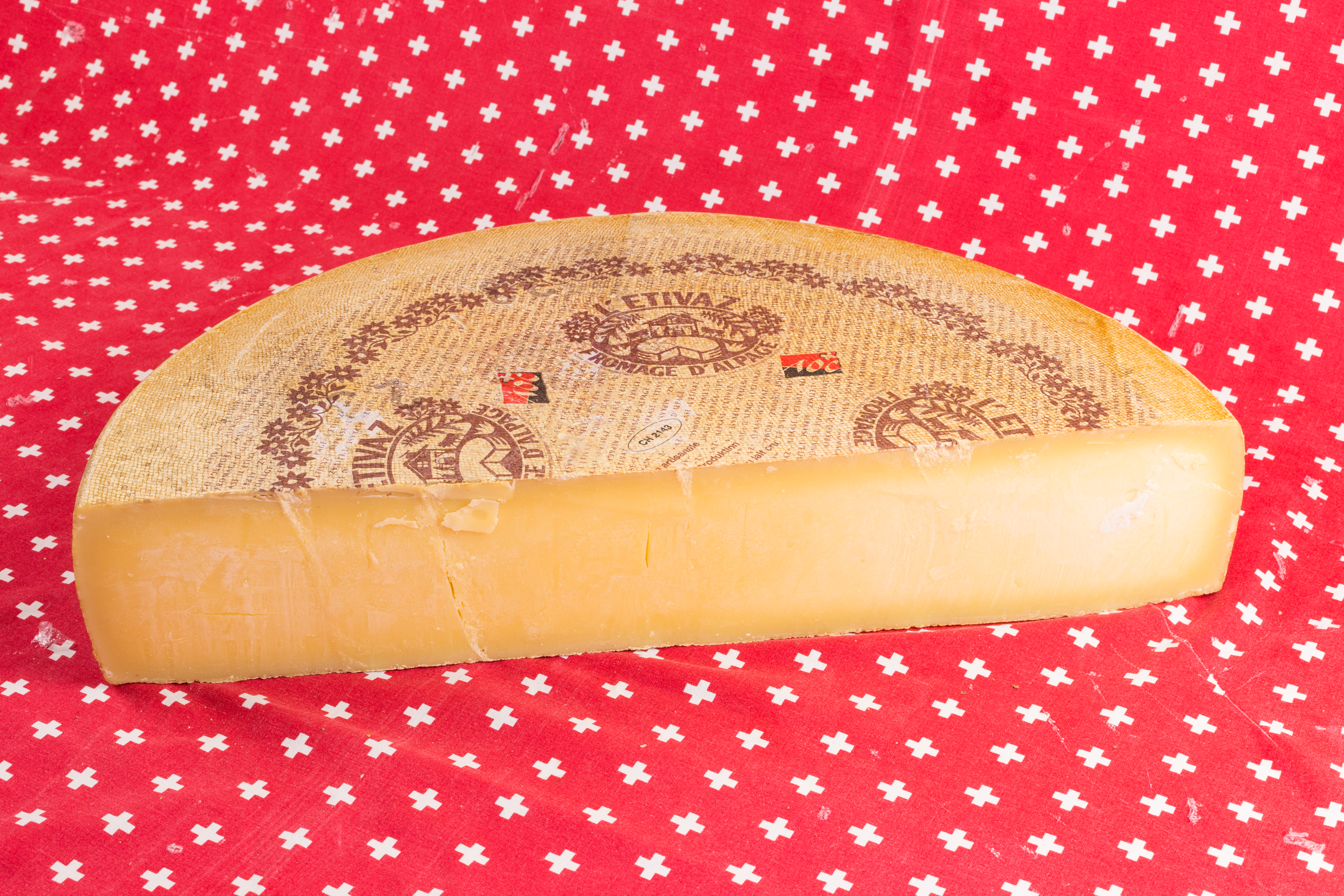 L’Etivaz AOP is a hard alpine cheese, produced from 10 May to 10 October each year. Made from the raw milk of more than 2,800 cows who graze 130 alpine pastures located between 1,000 and 2,000 metres above sea level, it is produced exclusively in mountain chalets, where a wood fire heats the milk in a giant copper cauldron.